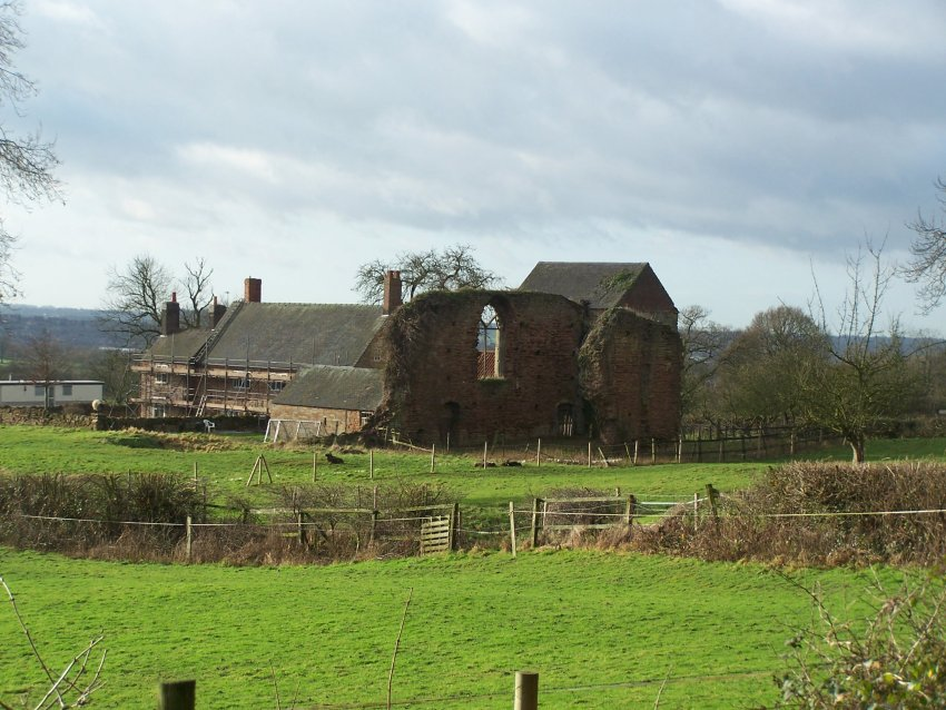 Author: Tina Cordon, Source: Own Picture Tina Cordon 12:50, 10 January 2007 (UTC)